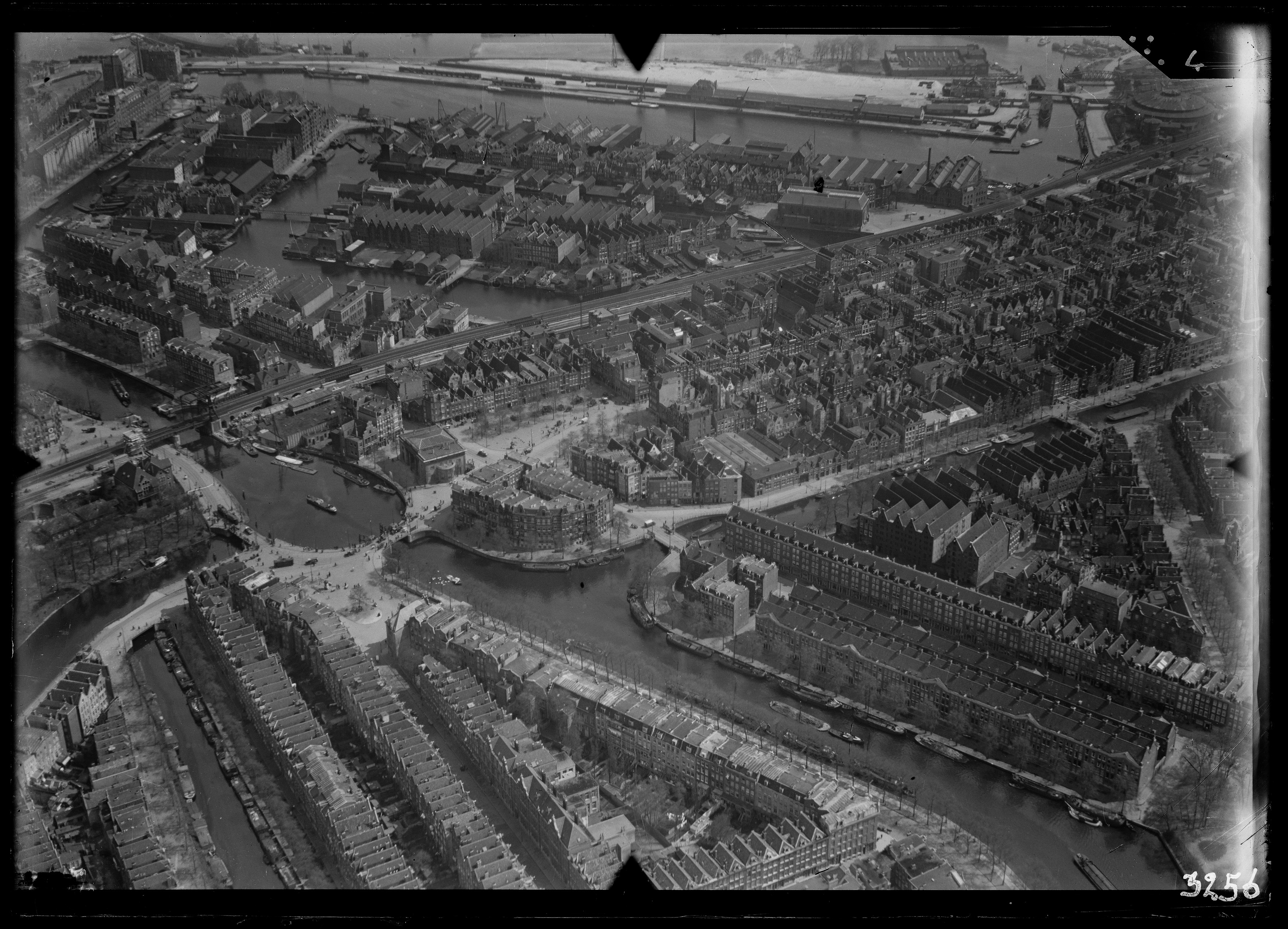 Aerial photograph of Amsterdam, The Netherlands